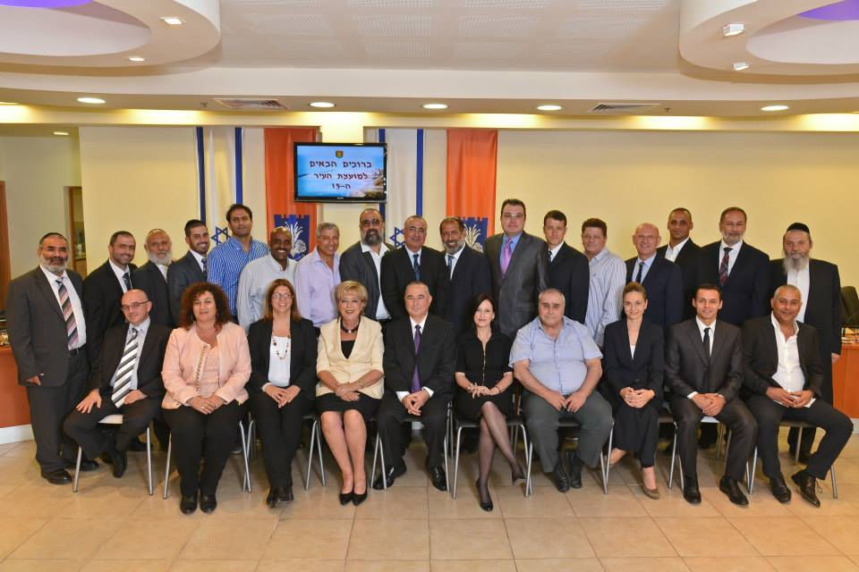 Netanya City Council # 15